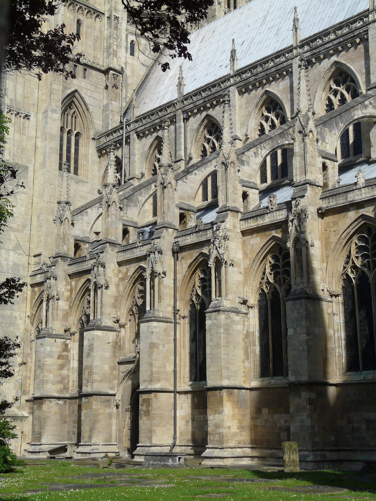 Beverley Minster, Beverley, East Riding of Yorkshire, England